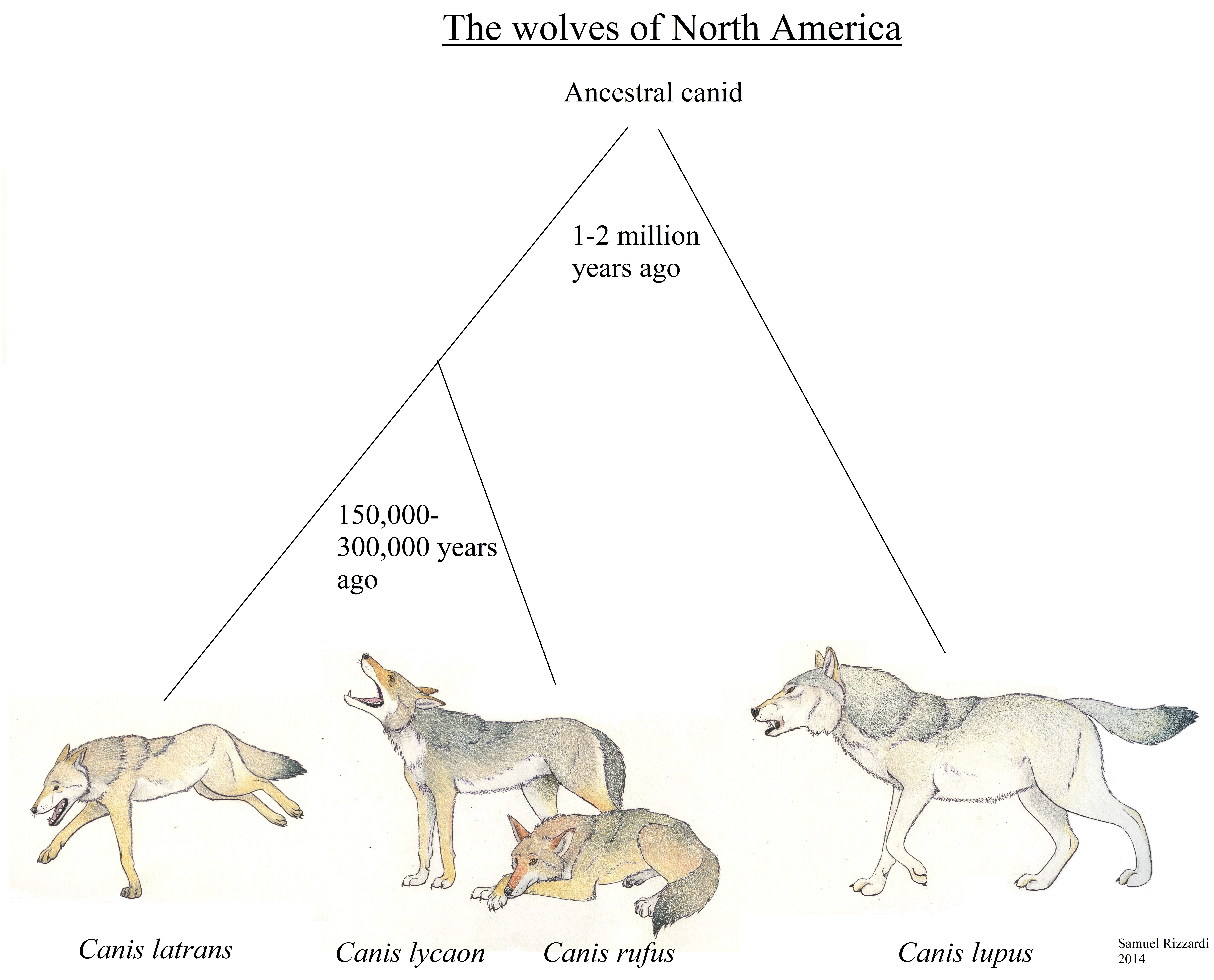 An illustrated evolutionary chart of North American Canis, based off of Wilson, P.J., et al (2000). "DNA profiles of the eastern Canadian wolf and the red wolf provide evidence for a common evolutionary history independent of the gray wolf". Canadian Journal of Zoology 78: 2156–2166.